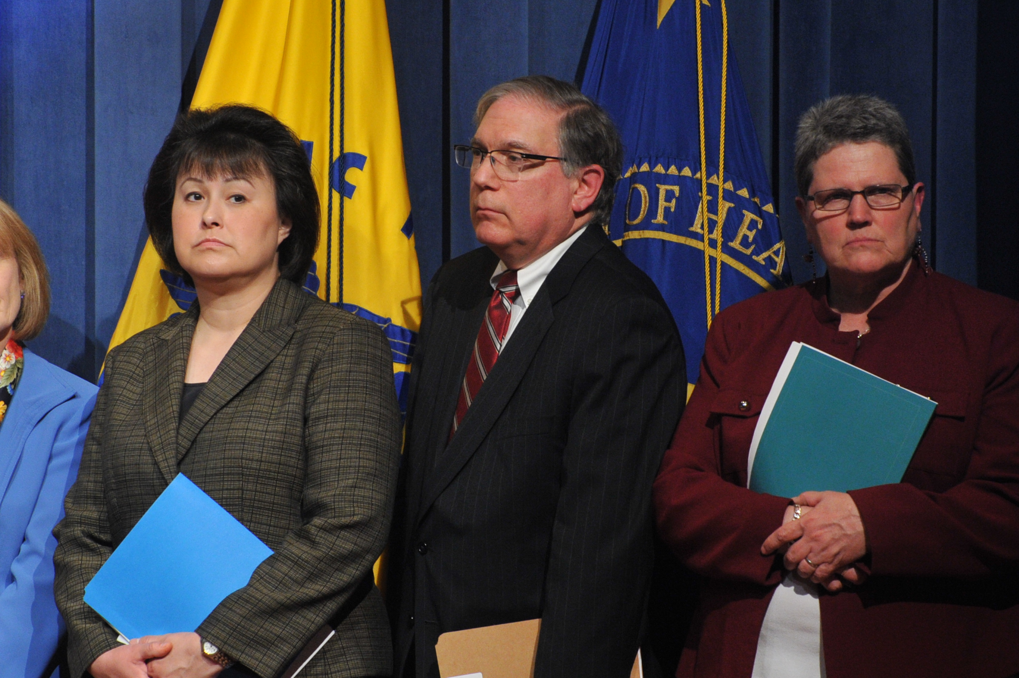 Dr. Yvette Roubideaux, Director of Indian Health Services (IHS) and Pamela S. Hyde, Administrator, Substance Abuse and Mental Health Services Administration (SAMHSA) listen to remarks during the HHS 2014 Budget Press Conference, April 10, 2013. Read the Secretary's full remarks here: Watch the video of the Secretary's remarks here HHS Photo by Chris Smith